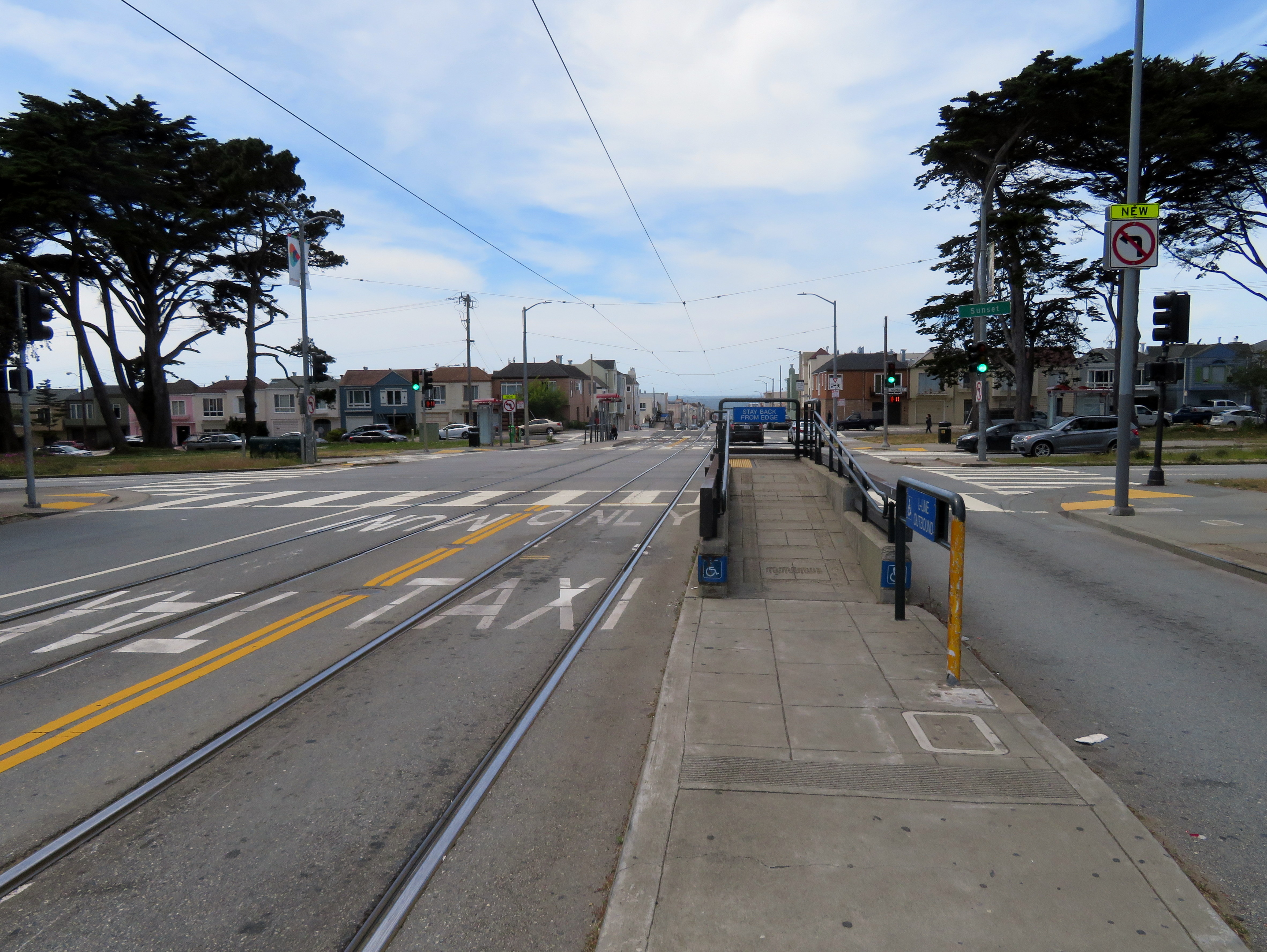 Outbound platform at Taraval and Sunset in May 2018